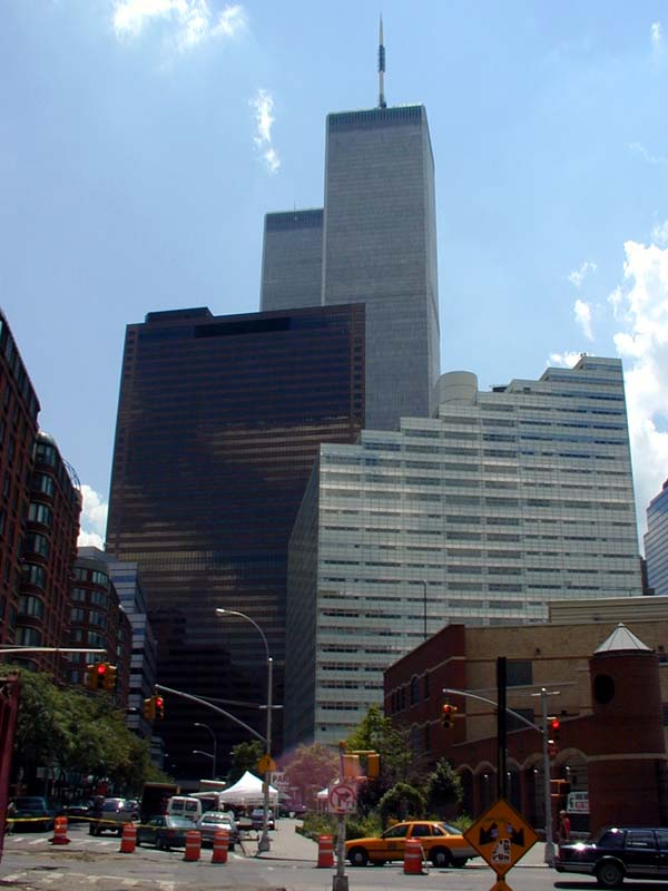 New York City's 7 World Trade Center in 2000.